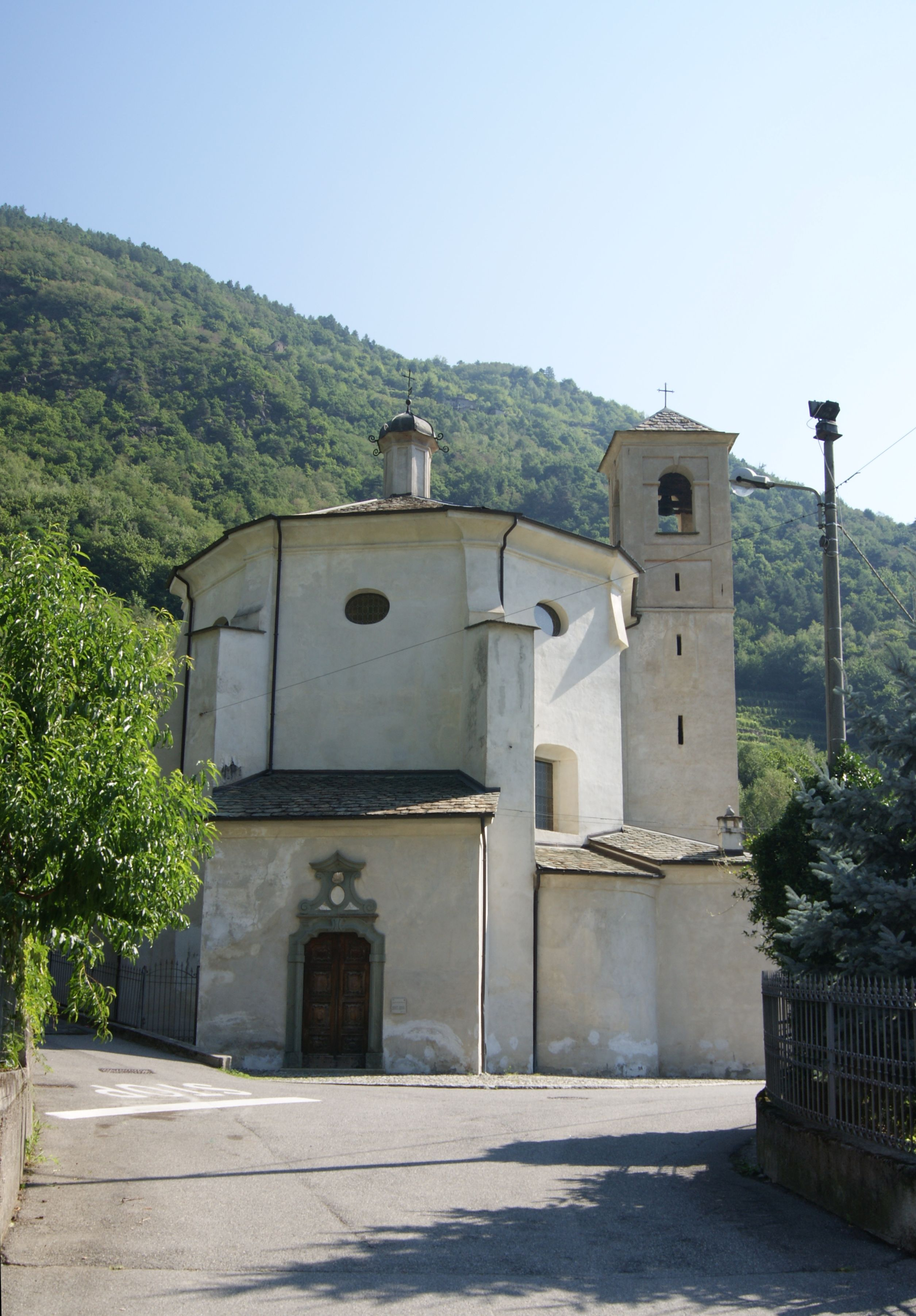 Church of San Rocco (Chiesa San Rocco) in Tirano.